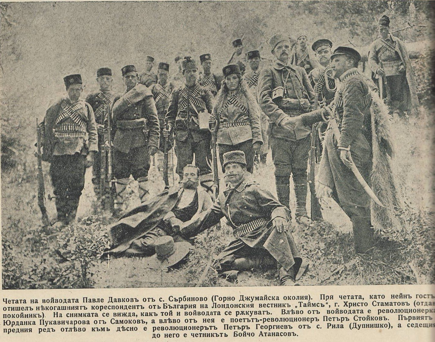 Cheta of bulgarian voevoda Pavel Davkov from IMARO during the Ilinden uprising